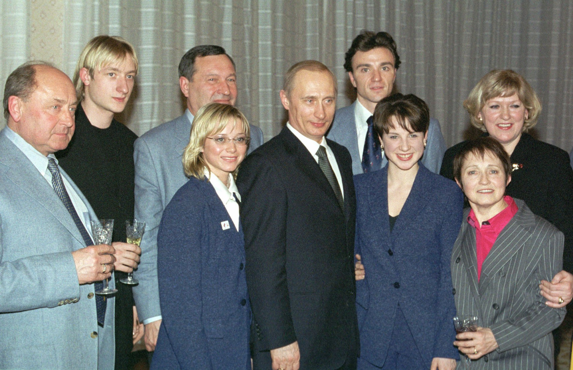 NOVO-OGARYOVO. President Vladimir Putin meeting with Russian Olympic team athletes and trainers. From left to right: Alexei Mishin, Evgeny Plushenko, Valentin Piseev (president of Figure Skating Federation of Russia), Yelena Berezhnaya, Vladimir Putin, Anton Sikharulidze, Irina Slutskaya, Tamara Moskvina, Zhanna Gromova